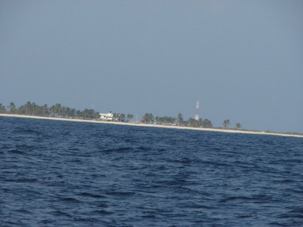 Roncador Cay